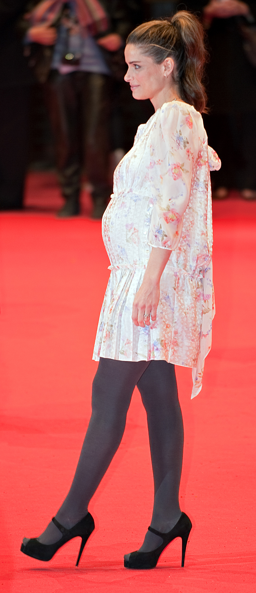 Amanda Peet arriving at the premiere of the movie Please Give at the 60th Berlin International Film Festival